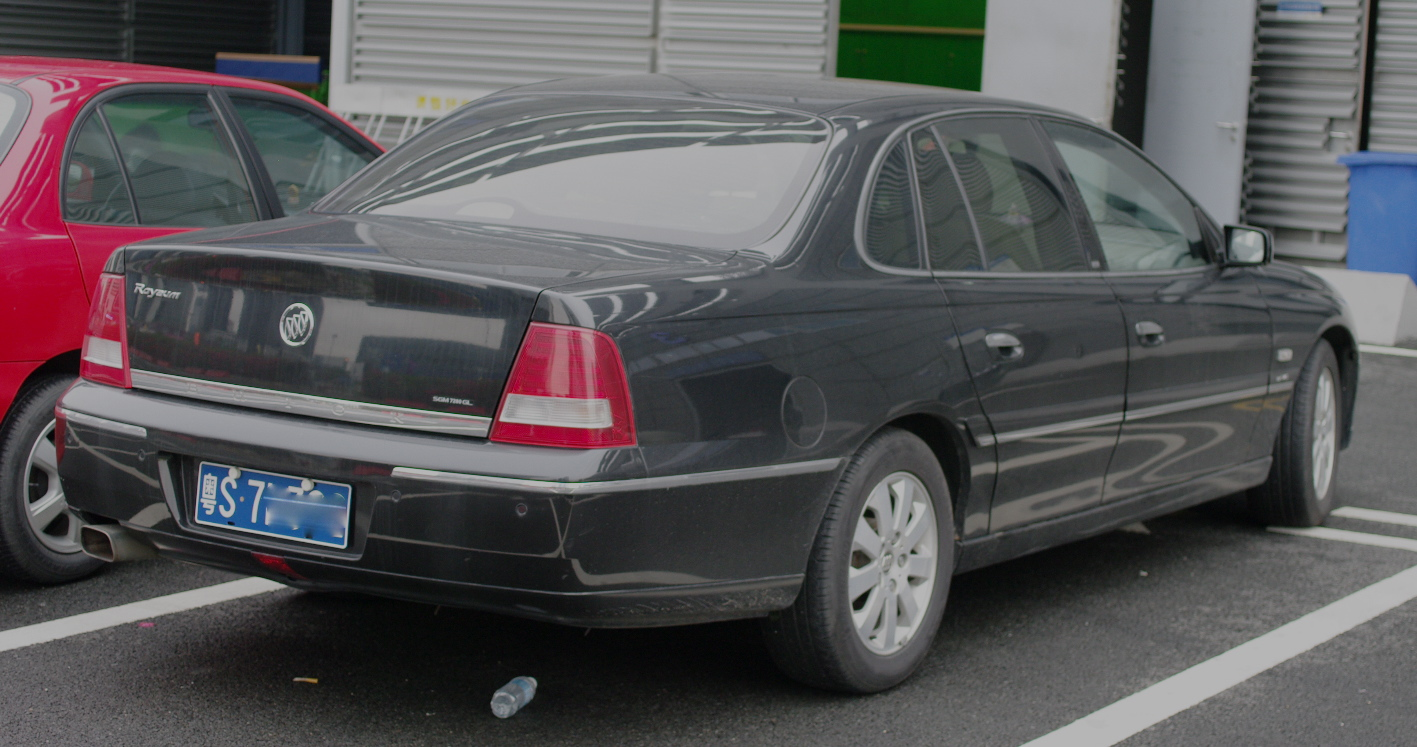 2005–2006 Buick Royaum sedan, photographed in China.